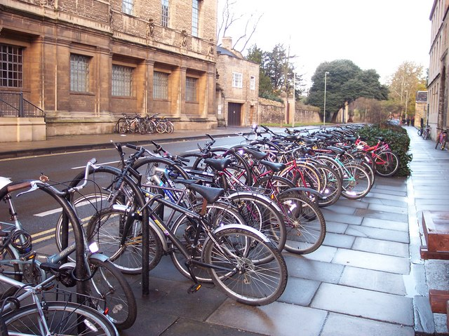 Bikes outside The Kings Arms Pub